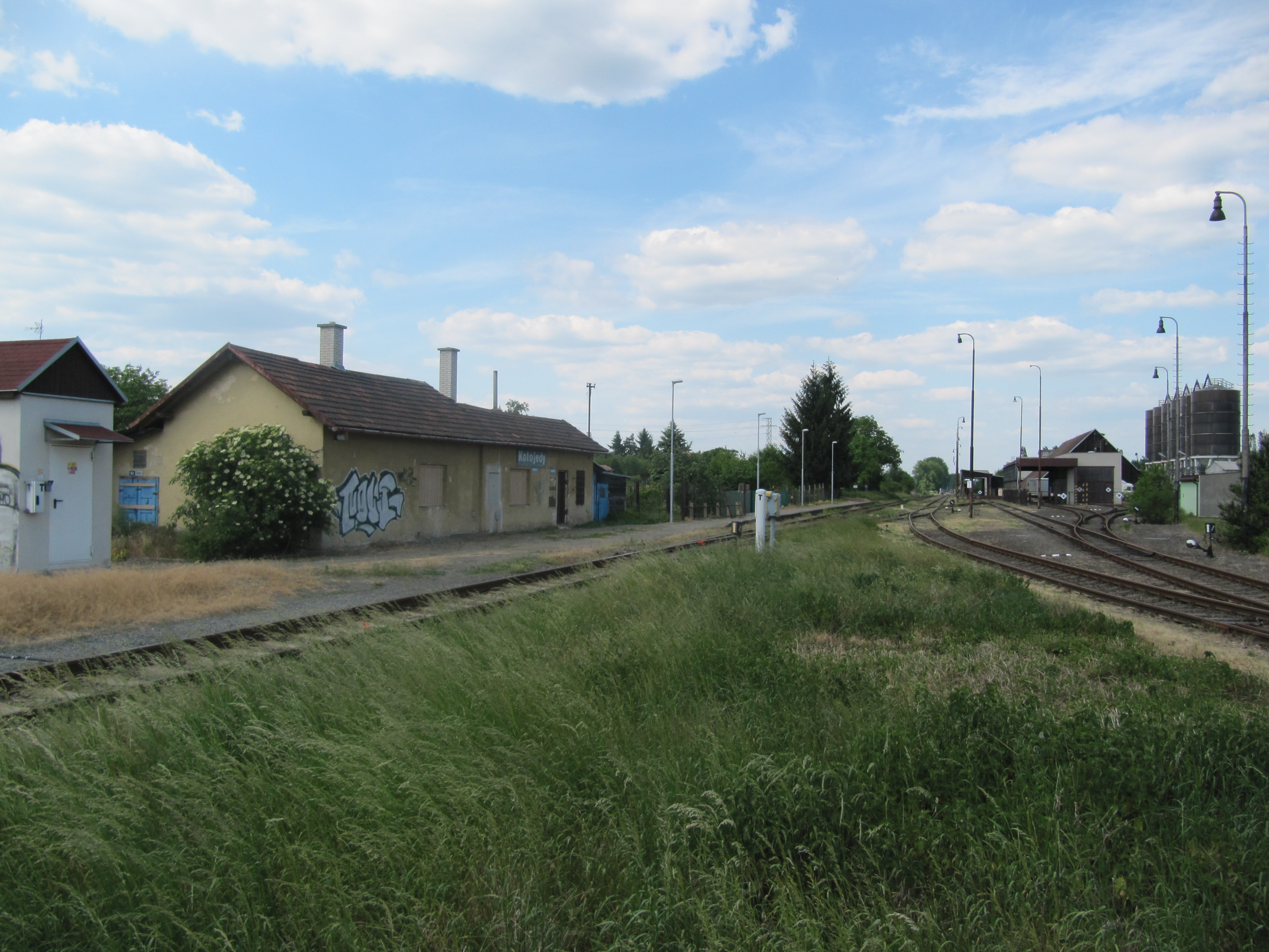 Kroměříž, Czech Republic, part Kotojedy. Railway stop.